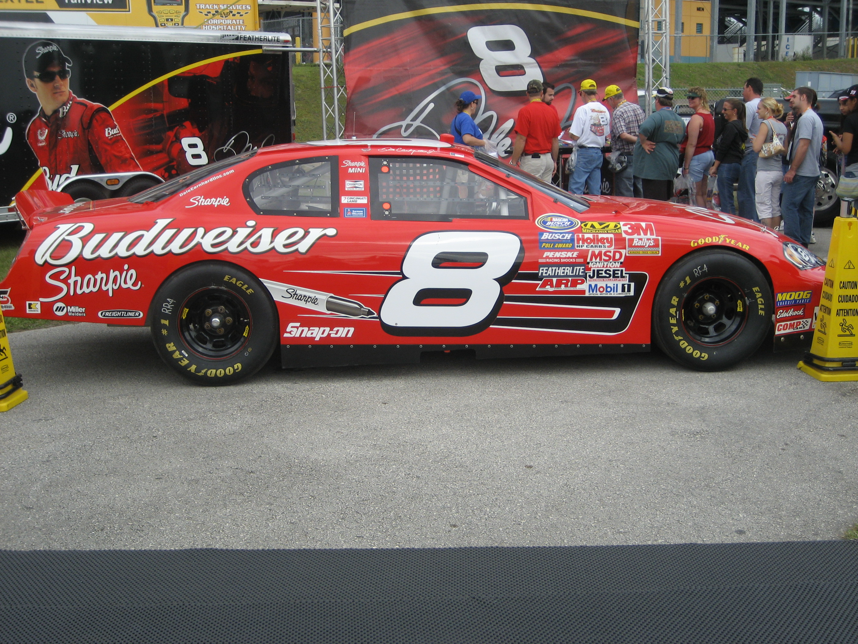 Jr.'s #8 Sharpie Busch car at the Sharpie display at the 2007 Ford Championship Weekend at the Homestead-Miami Speedway. Credit - Chris Green